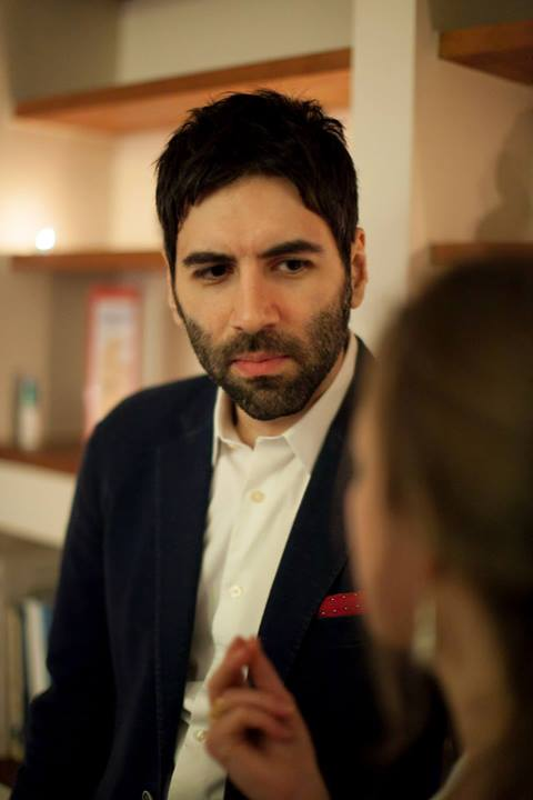 Daryush "Roosh" Valizadeh in Warsaw, Poland (2014).